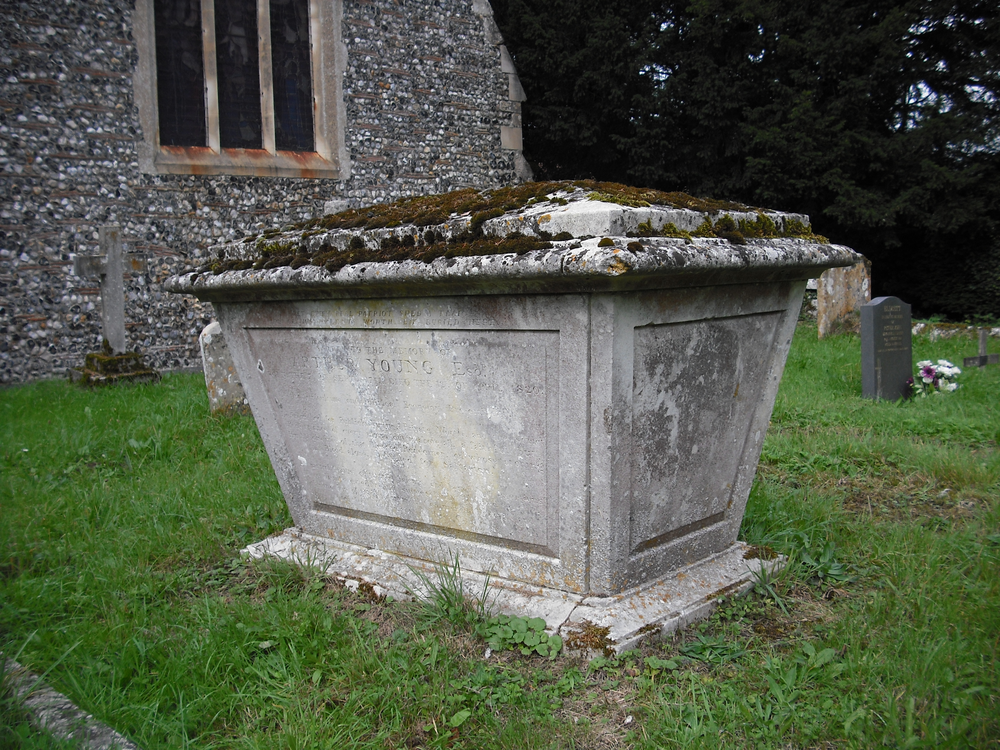 Tomb of Arthur Young at All Saint's Church, Bradfield Combust